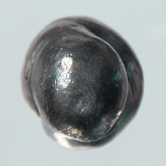 Beryllium is a relatively inert, hard, medium grey metal, which is very light. It is nearly transparent for X-rays. Beryllium is not often used, as it is quite expensive and very toxic, in its elemental form as in many of its compounds. However, it is an important ingredient in many valuable gemstones, like beryl, aquamarine and emerald. Clear beryl was used for optical lenses in former times. The extremely unstable isotope beryllium 8, which has a half-life of 67 quintillionths of a second, plays an important role in the universe. Advanced stars fusion helium 4 to carbon 12 via this isotope